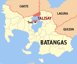 Map of Batangas showing the location of Talisay